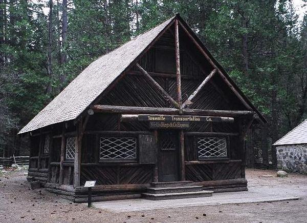 The Yosemite Transportation Company Office The Stage Office — now within the Pioneer Yosemite History Center in Wawona, southern Yosemite National Park, California.